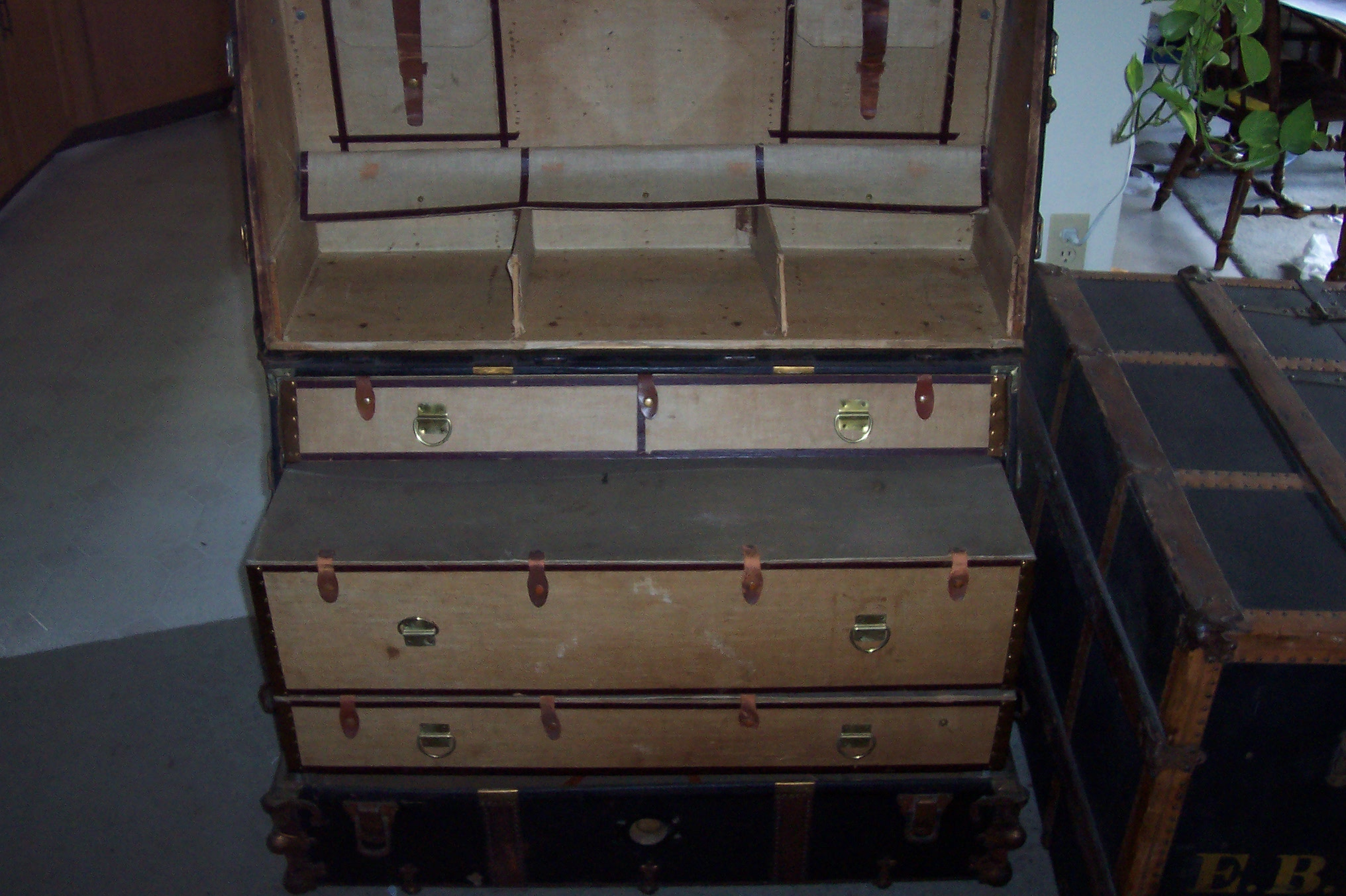 The Homer Young dresser trunk. You can just make out a Stallman dresser trunk on the right.